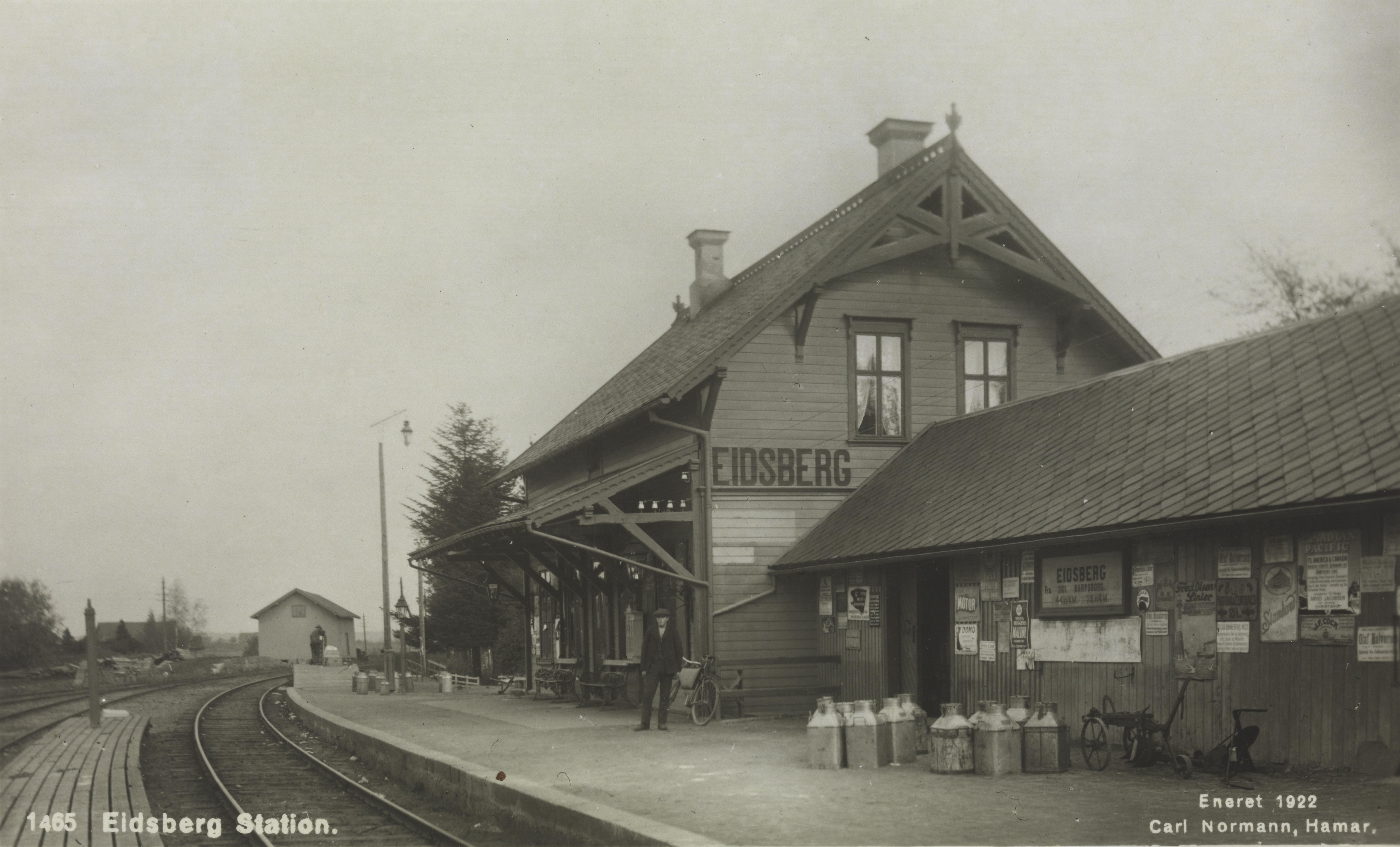 Eidsberg station, Eastern Østfold line, Eidsberg, Østfold, Norway. Image from the Nasjonalbiblioteket collection